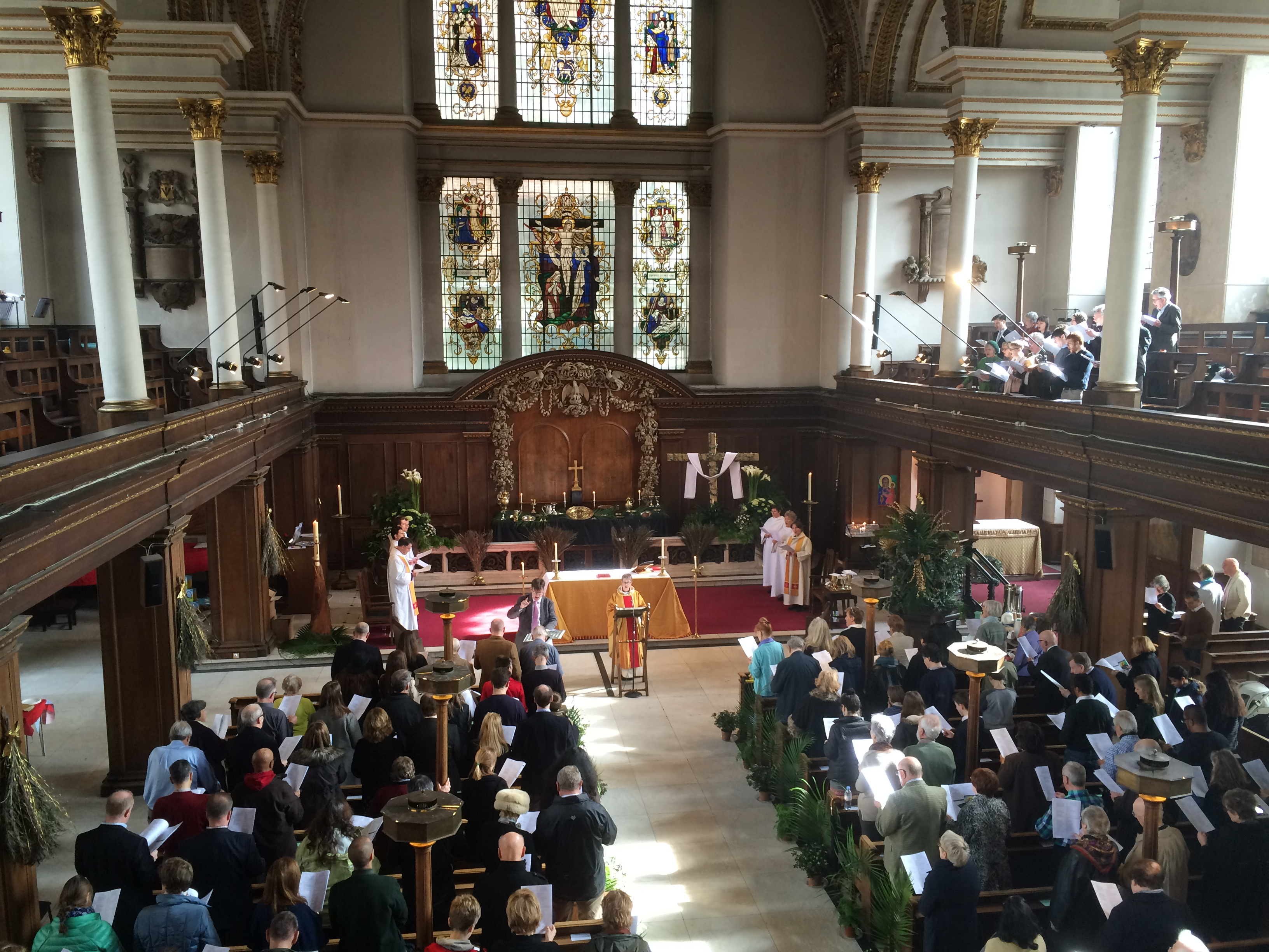 The church interior on Easter Day 2016